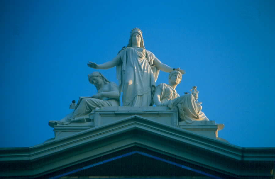 photo by Einar Einarsson Kvaran from "Architectural Sculpture of America , "Columbia Protecting Science & Industry', Arts & Industries Building. Smithsonian Institute, Washington D.C. Caspar Buberl